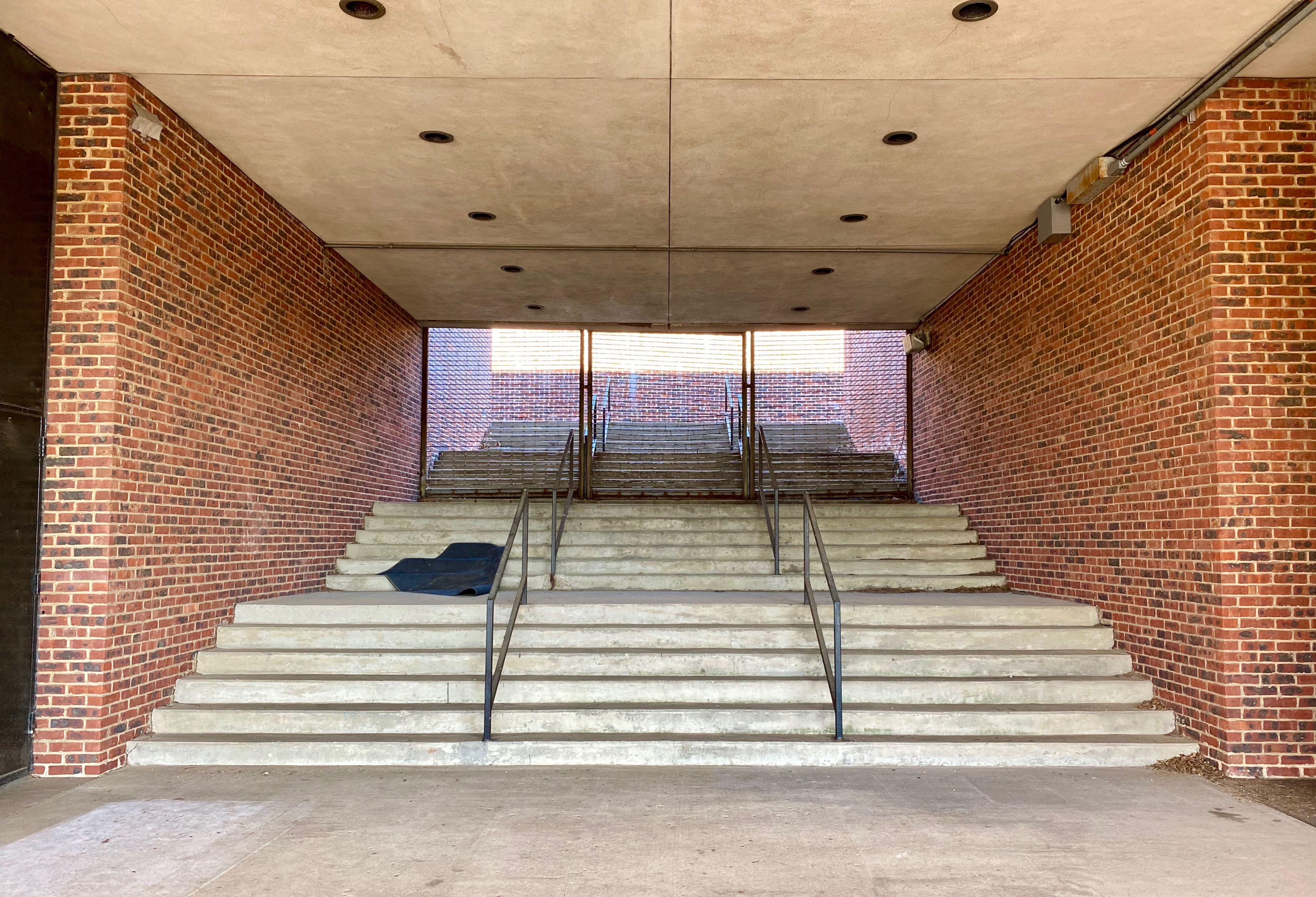 This segment of the staircase, running underneath the west (Roslyn Road) side of the school between the plaza under the suspended school structure (adjacent to Roslyn Road) and the west courtyard, is the only remaining section of the staircase which once led to the original school's entrance.